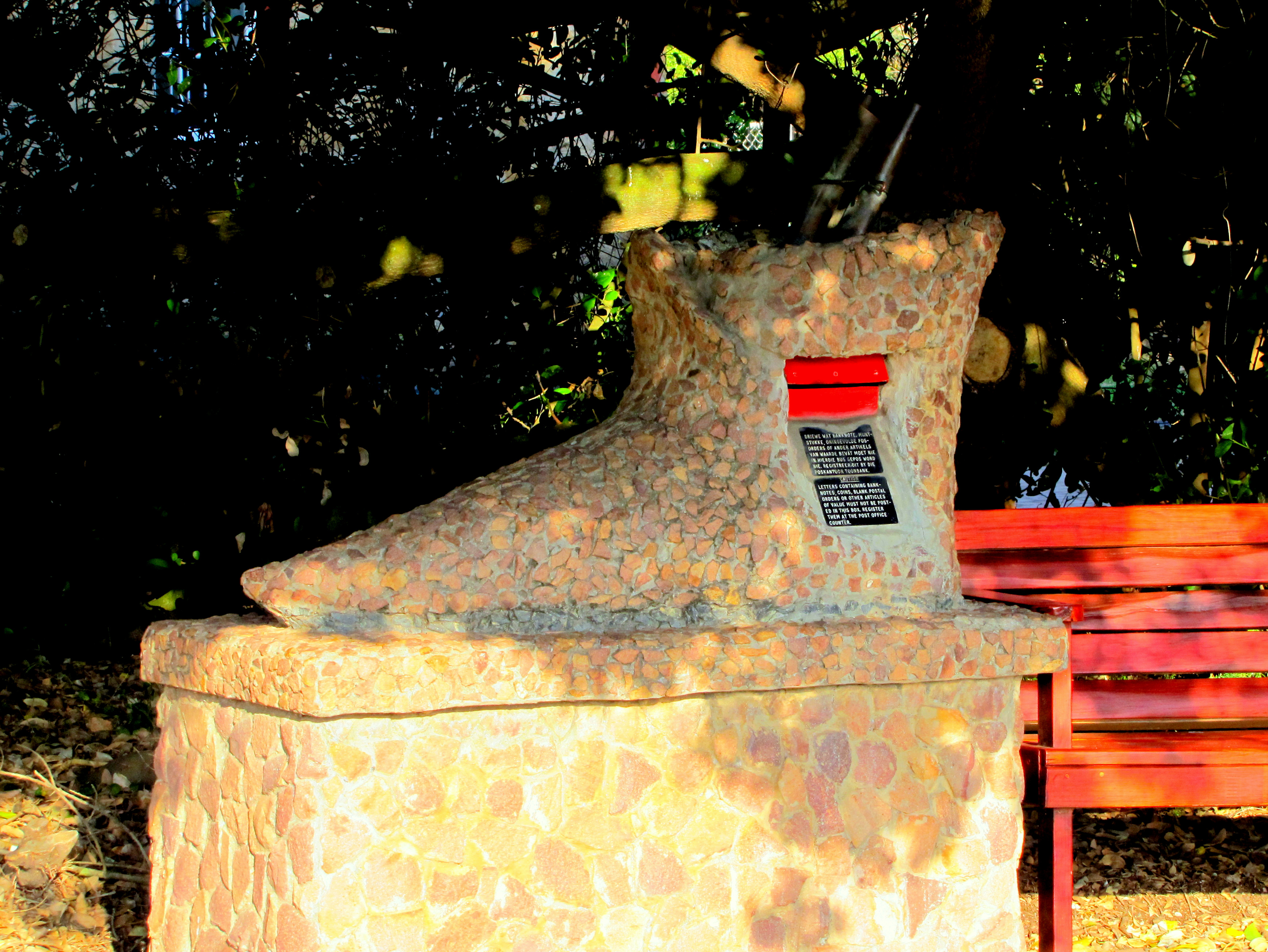 A boot made of stone was built in Mosselbay to signify that the first postal service was started here in the form of an old boot tied to a tree in the area with a note stuck in it for the next traveller to hopefully see it and take it back to Portugal.